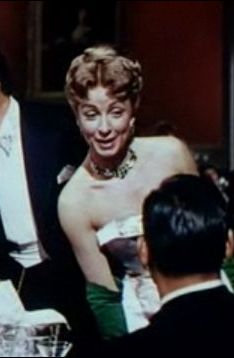 Cropped screenshot of Danielle Darrieux from the trailer for the film Rich, Young and Pretty.